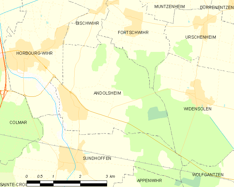 Map of French municipality